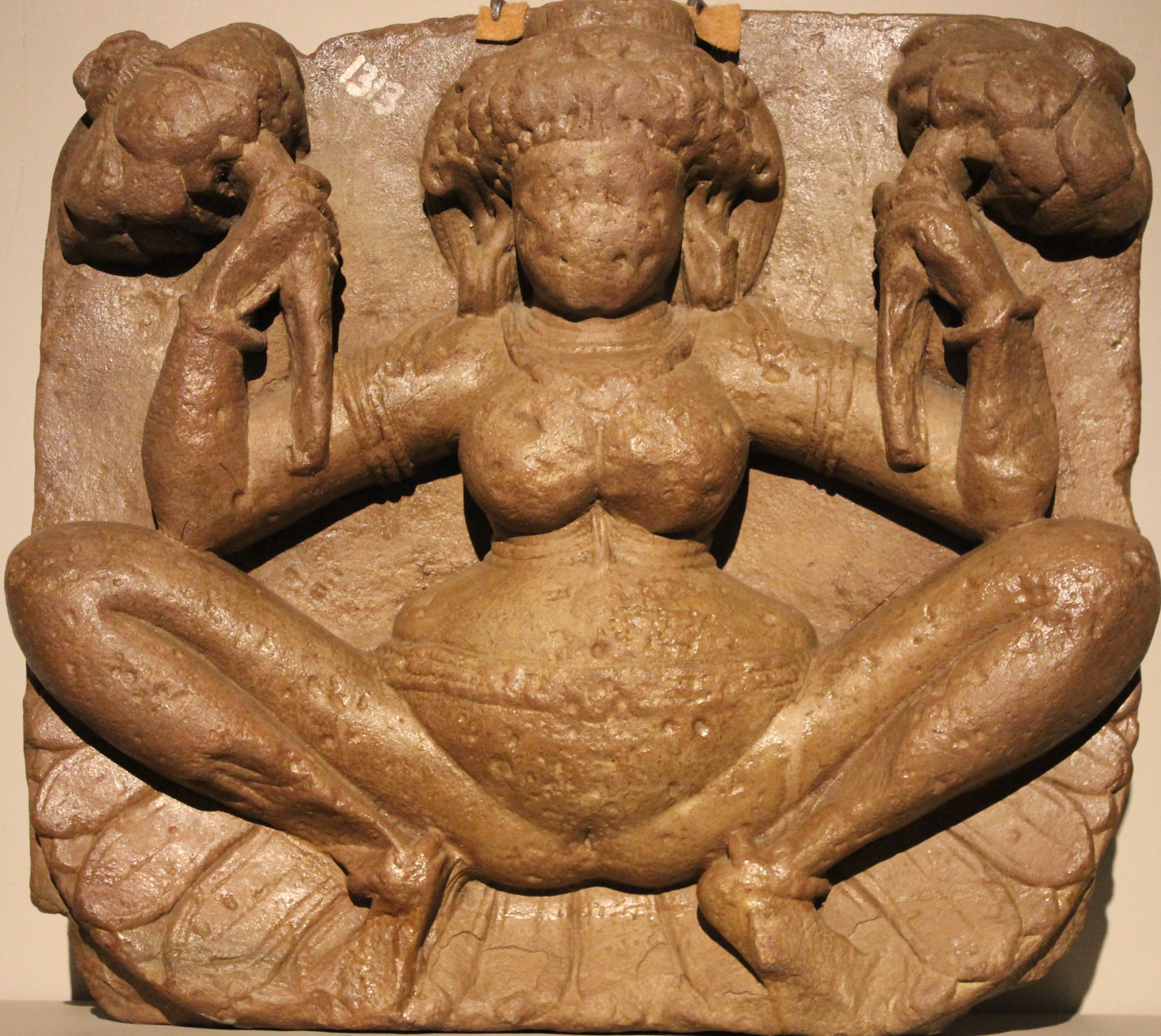 Lajja Gauri was a mother goddess worshipped between 6th to 8th Century. She fell in disuse after 12th Century